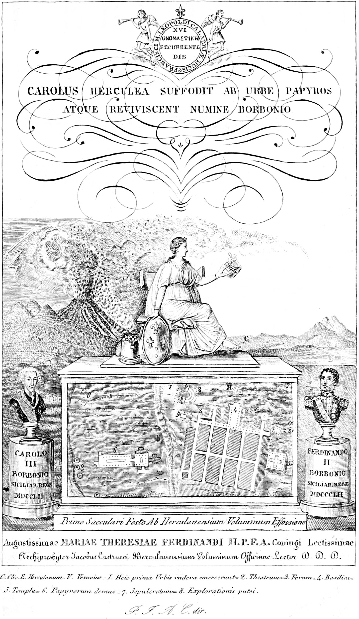 Image from book: Tesoro letterario di Ercolano, ossia, la reale officina dei papiri ercolanesi, Stamperia e cartiere del Fibreno, Naples, 1858.